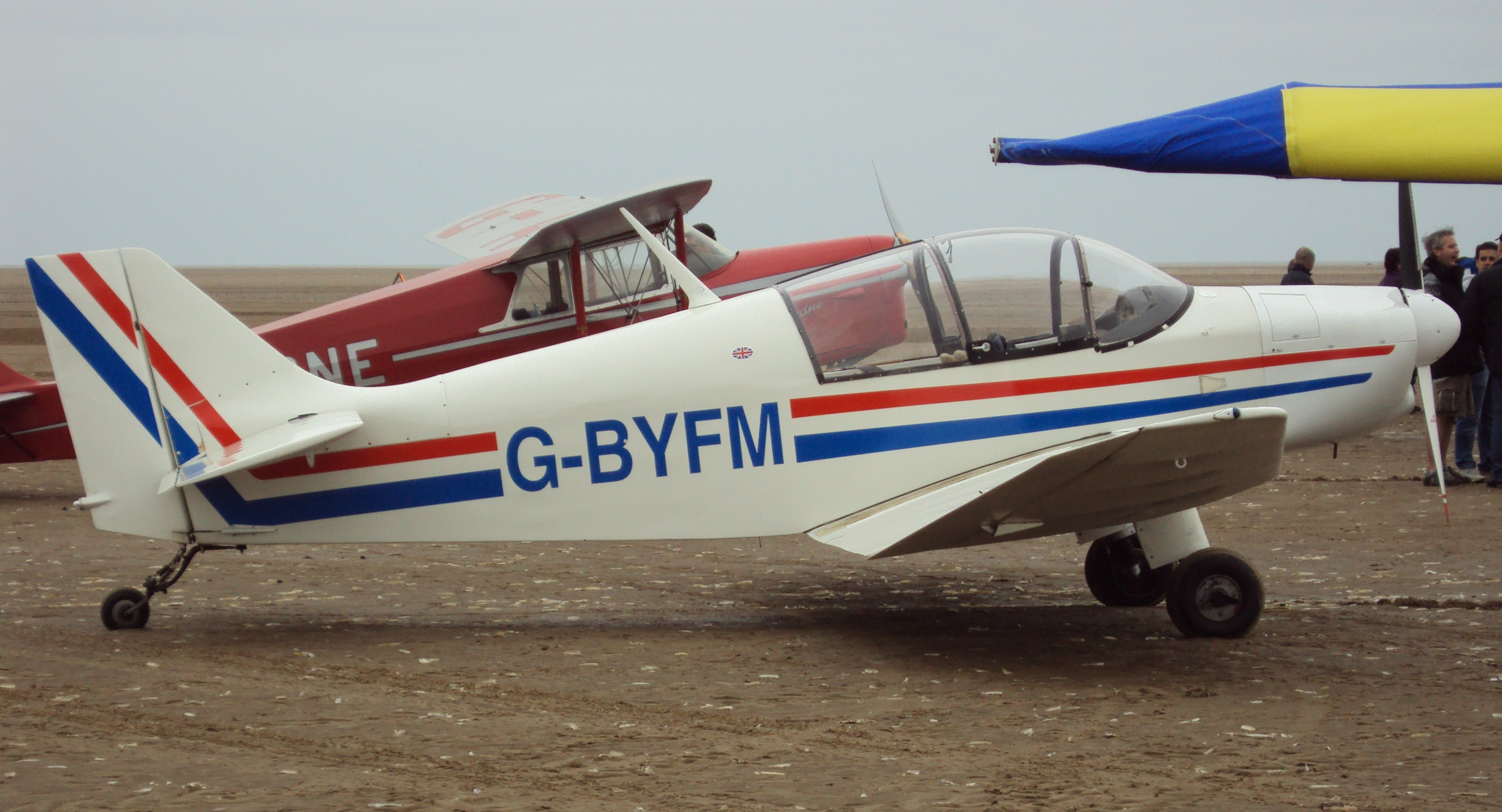 Light aircraft Jodel/Robin DR1050 M1 Sicile Record Replika at the 2009 Southport Air Show, Merseyside, England.